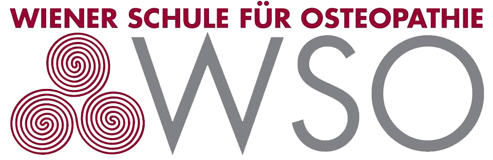 WSO Logo Transparent